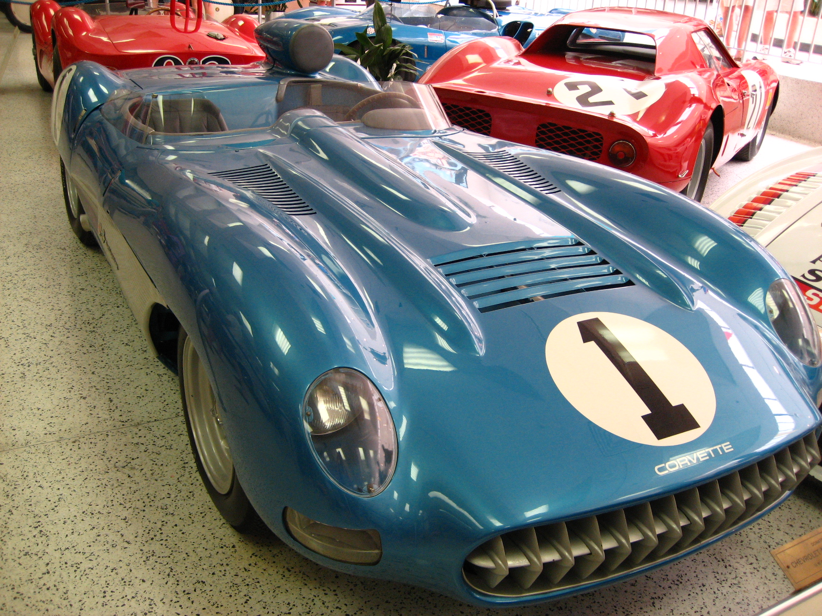 A photo of the Corvette SS on display at the Indianapolis Motor Speedway Hall of Fame Museum